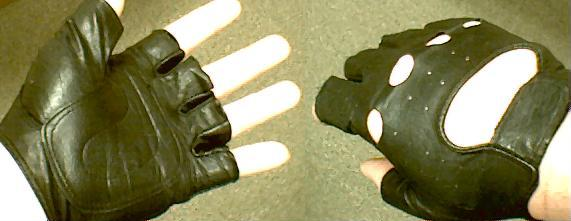 Picture of leather fingerless gloves from Wilson Leather, size large.